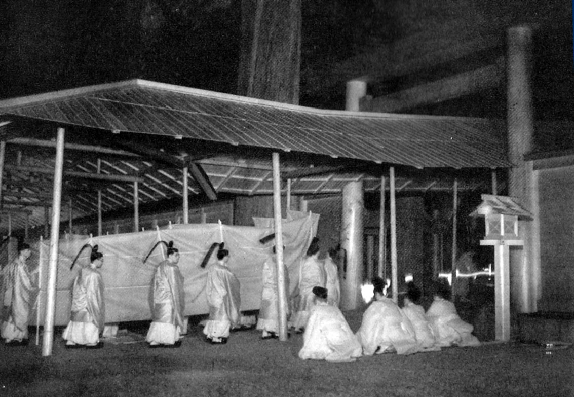 Outer Grand Shrine moves site